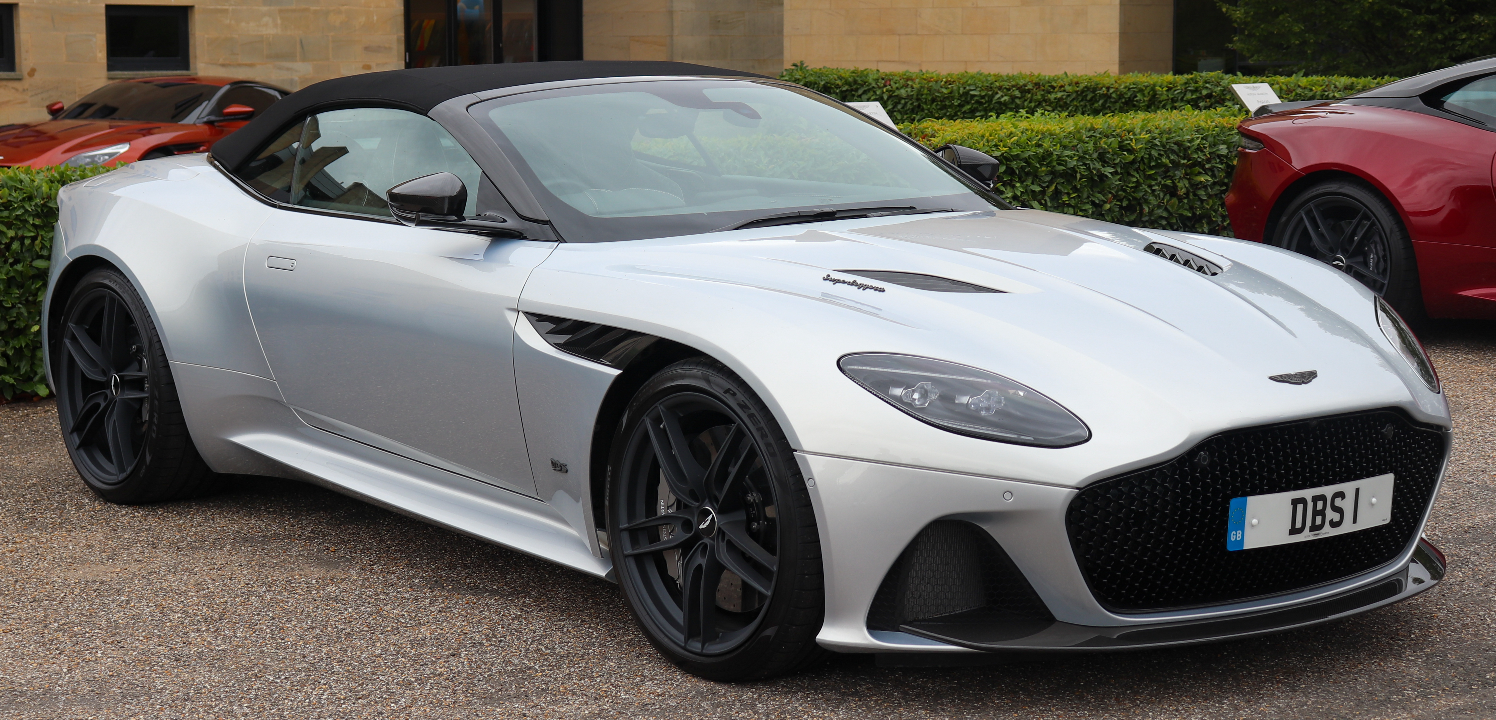 2019 Aston Martin DBS Superleggera Volante 5.2 Taken at the Aston Martin Lagonda factory, Gaydon